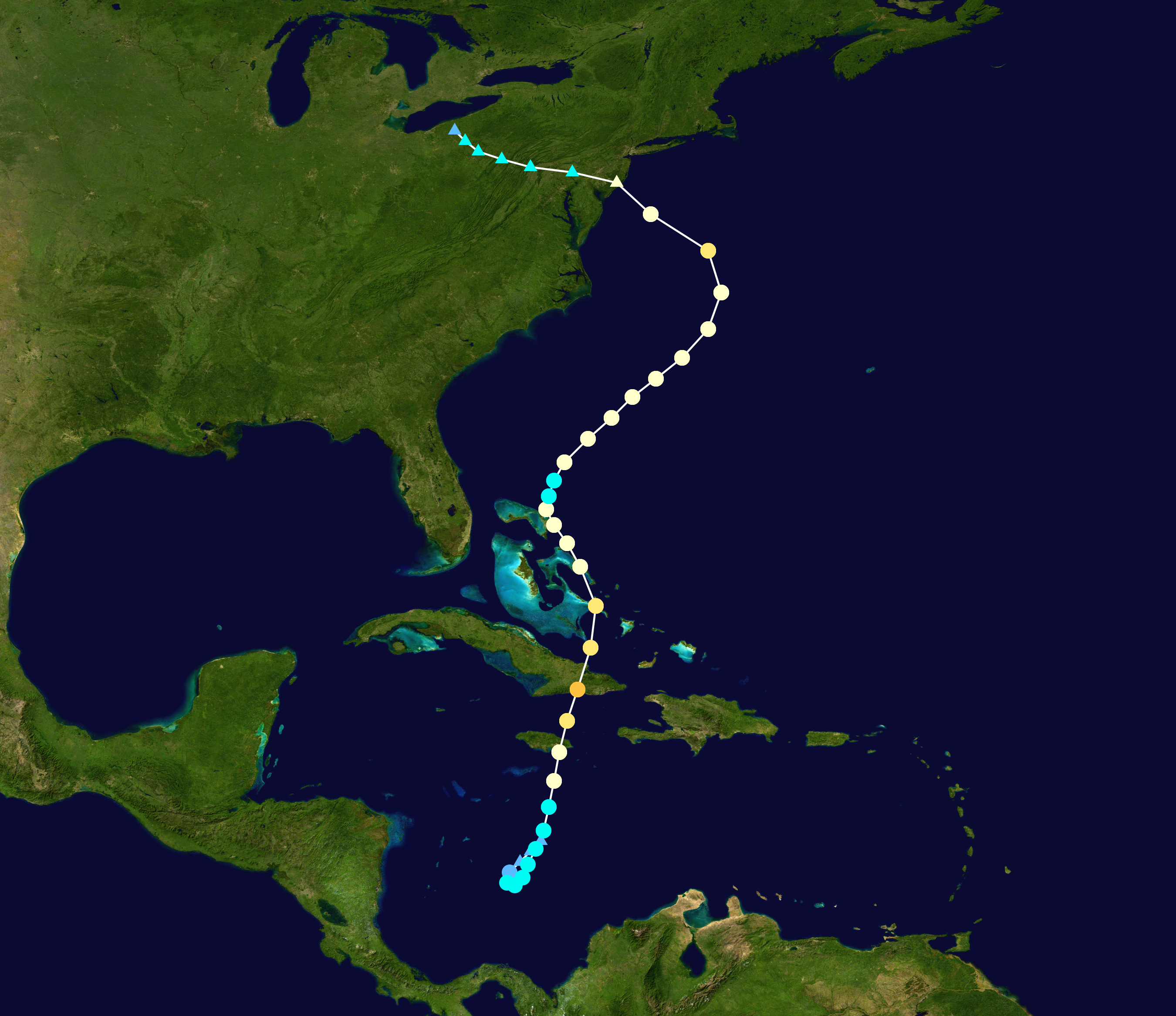 Track map of Hurricane Sandy of the 2012 Atlantic hurricane season. The points show the location of the storm at 6-hour intervals. The colour represents the storm's maximum sustained wind speeds as classified in the Saffir–Simpson scale (see below), and the shape of the data points represent the nature of the storm, according to the legend below. Saffir–Simpson scale Tropical depression≤38 mph≤62 km/h Category 3111–129 mph178–208 km/h Tropical storm39–73 mph63–118 km/h Category 4130–156 mph209–251 km/h Category 174–95 mph119–153 km/h Category 5≥157 mph≥252 km/h Category 296–110 mph154–177 km/h Unknown Storm type Tropical cyclone Subtropical cyclone Extratropical cyclone / Remnant low / Tropical disturbance / Monsoon depression